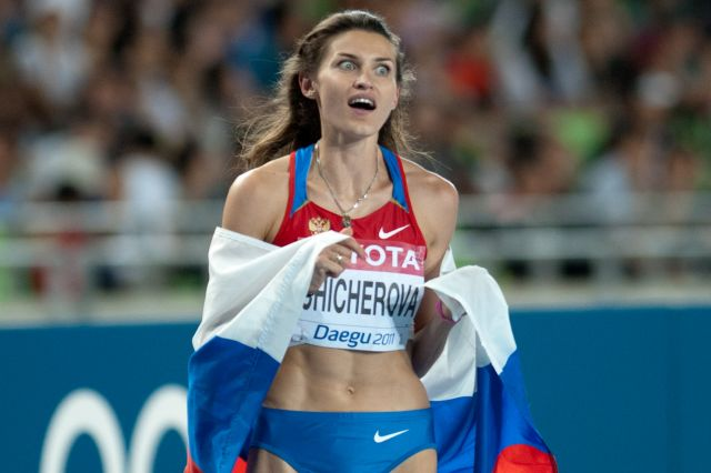 Anna Chicherova during 2011 World championships Athletics in Daegu